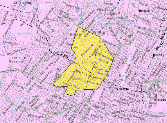 Census Bureau map of East Orange